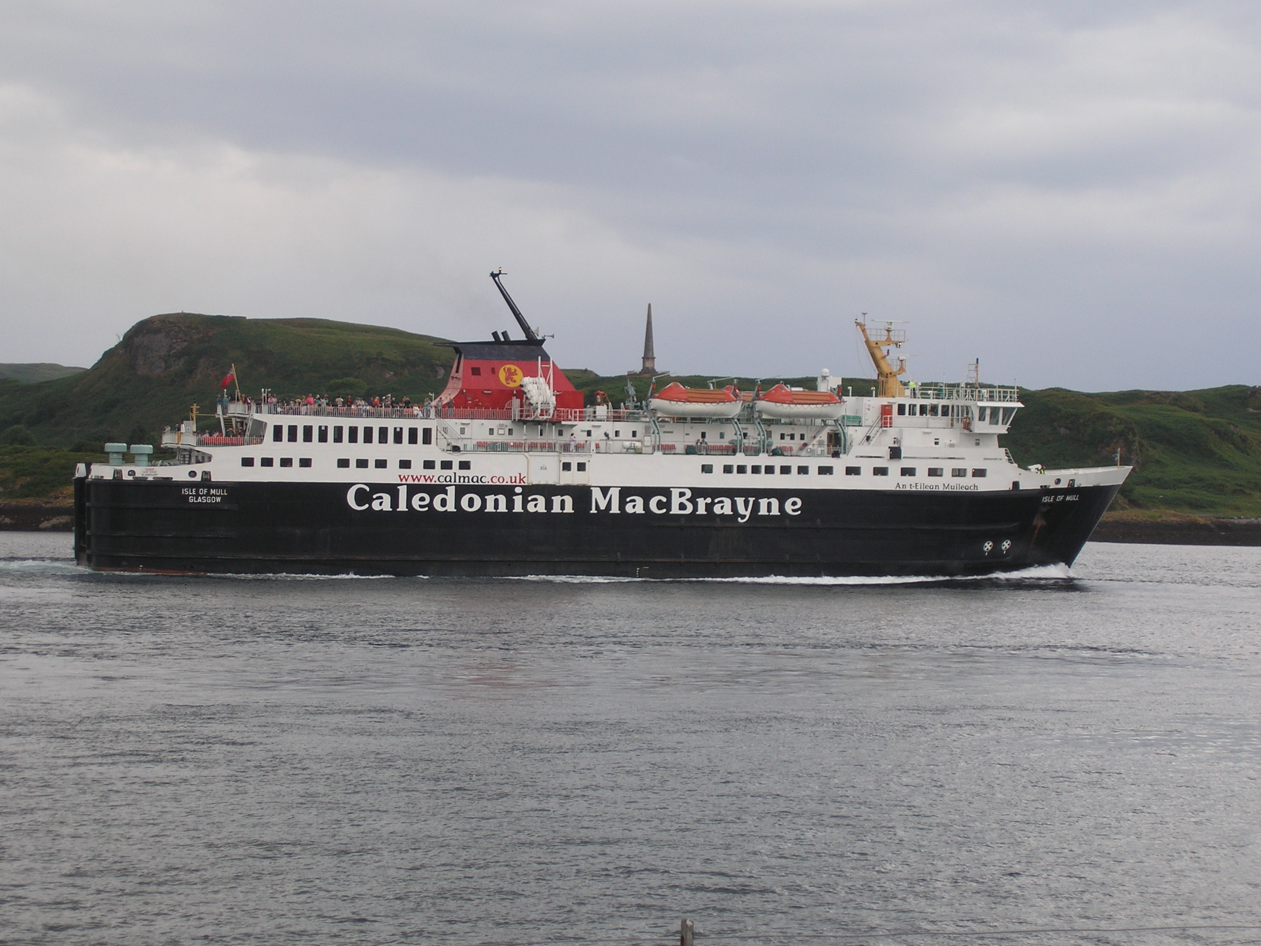 MV Isle of Mull leaving Oban Bay with the island of Kerrera in the background. The Hutchison Memorial is visible on Kerrera.